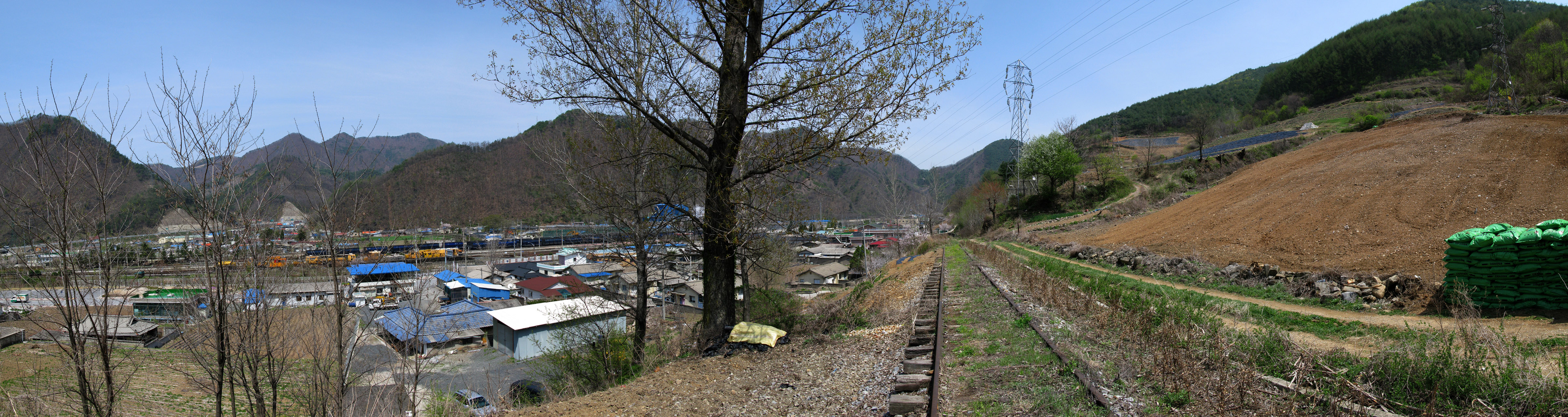 Yemi Emergency Line Panoramic View